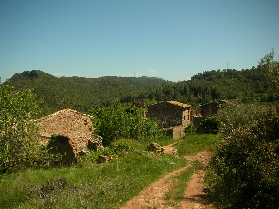 Fatxes, ghost town near Vandellòs, Baix Camp